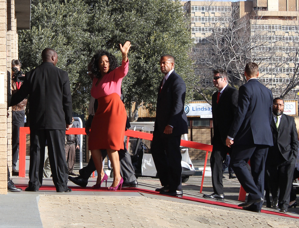 Oprah Winfrey, University of the Free in Bloemfontein, Free State, en route to receive honorary doctorate